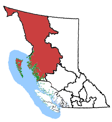 Map of the Skeena—Bulkley Valley electoral district. Based on Earl Andrew's maps, created by SimonP.